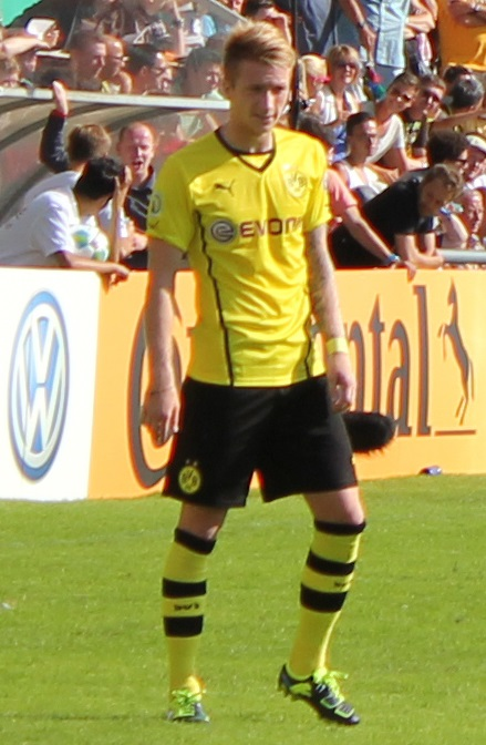 Marco Reus during a match 2013 in Wilhelmshaven